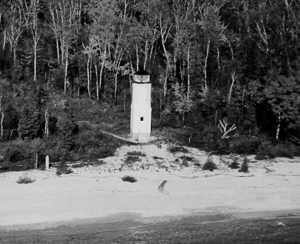 Public Domain statement here; The Plum Island Range Lights are a pair of lighthouses located on Plum Island in Door County, Wisconsin. Front Range pictured.